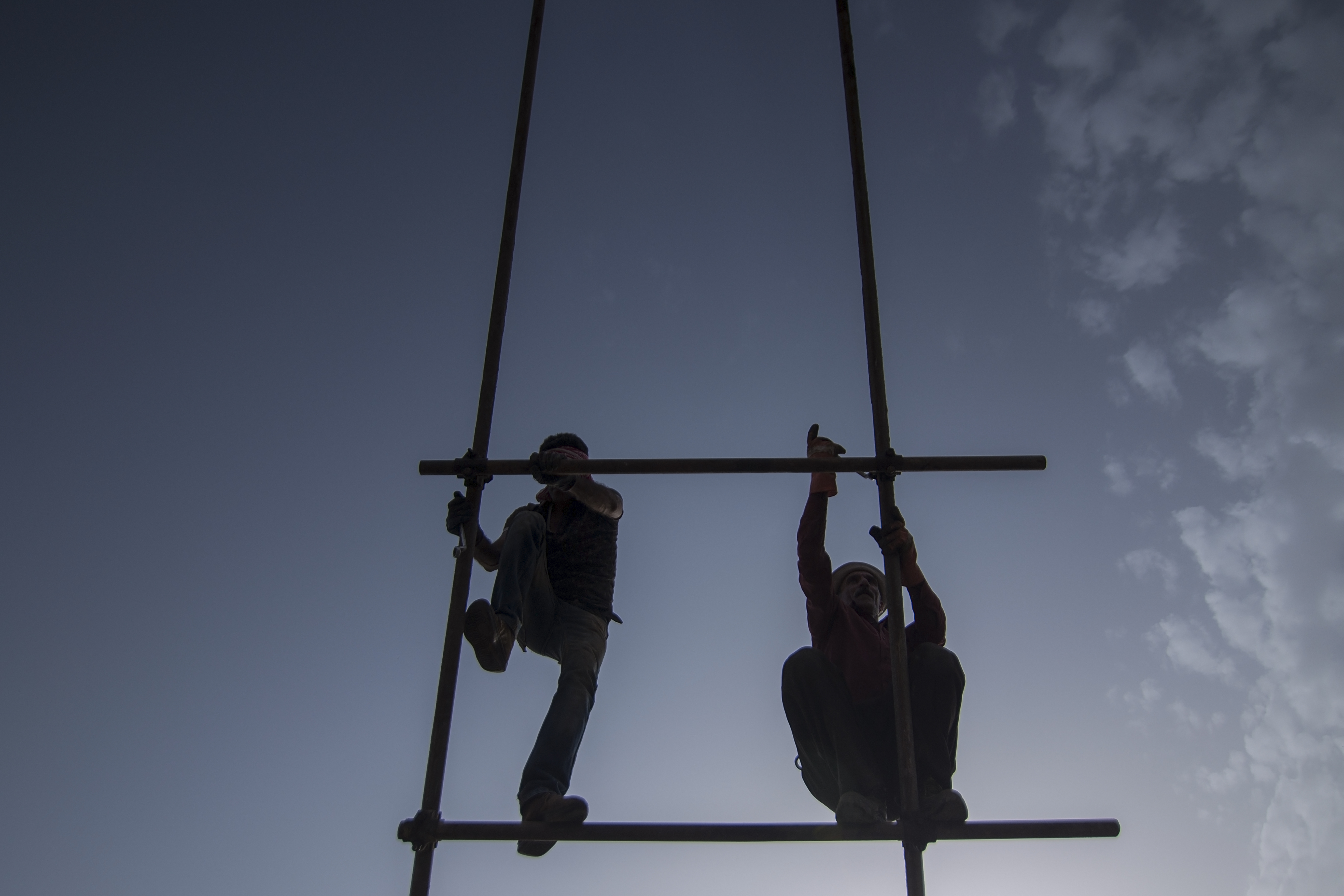 Scaffolding, also called scaffold or staging is a temporary structure used to support a work crew and materials to aid in the construction, maintenance and repair of buildings, bridges and all other man made structures.